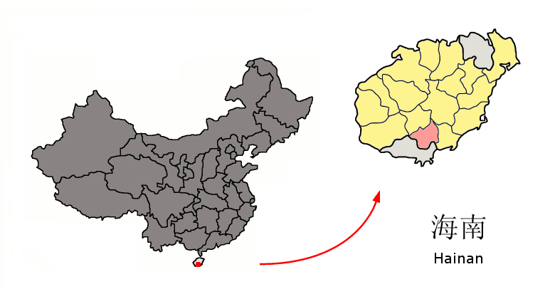 Location of Baoting County (pink) and the subdivisions directly administered by the province (yellow) within Hainan province of China Map drawn in september 2007 using various sources, mainly : Hainan Counties map from